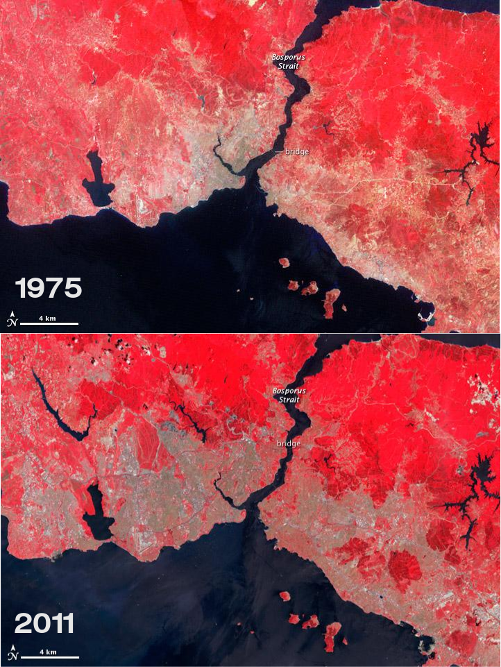 Comparison of the growth of Istanbul between 1975 and 2011. (The grey areas are buildings)